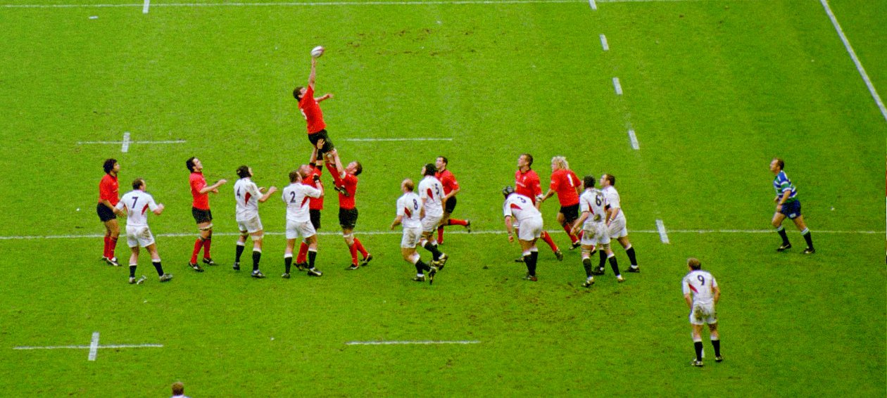 Wales win an uncontested lineout at Twickenham, in the 2004 Six Nations Championship -- GWO